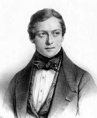 Belgian violinist and composer Charles-Auguste de Bériot (1802-1870) by Henri Grevedon (1776-1860).